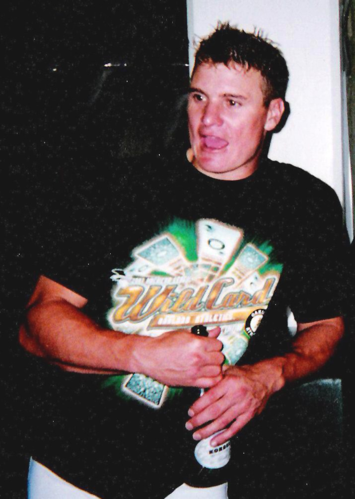 Eric Byrnes celebrating with teammates after the Oakland A's earned a spot in the playoffs.